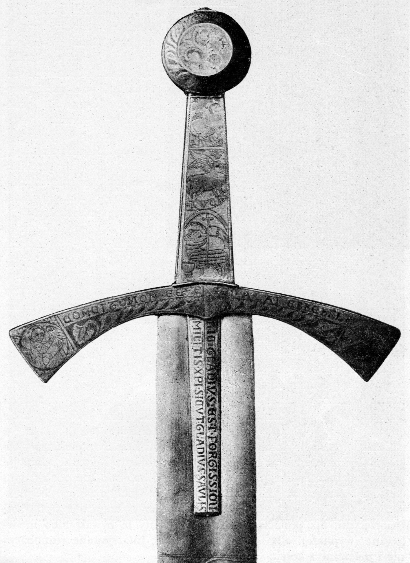 Polish coronation sword (12th century)